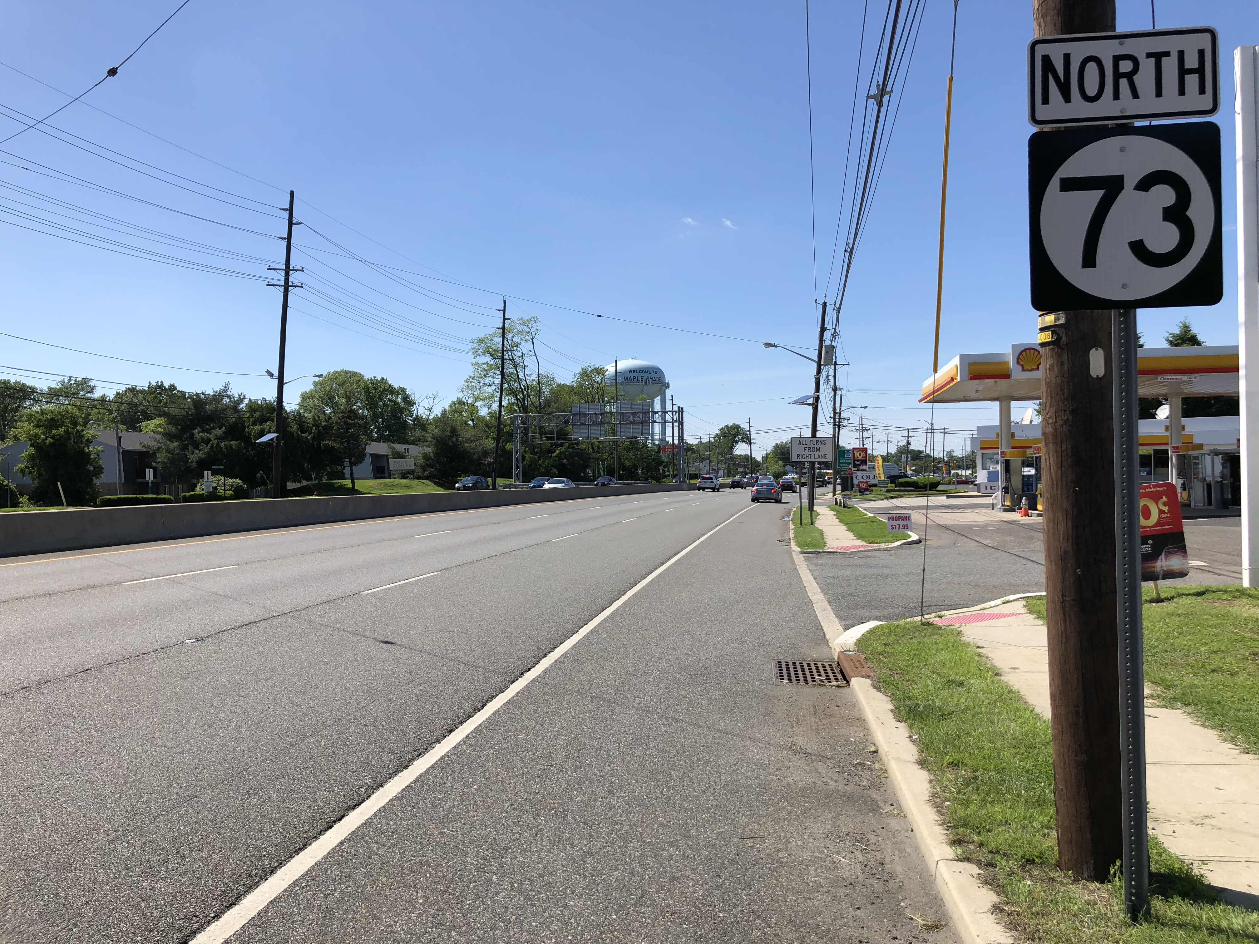 View north along New Jersey State Route 73 just north of New Jersey State Route 41 (Kings Highway) in Maple Shade Township, Burlington County, New Jersey